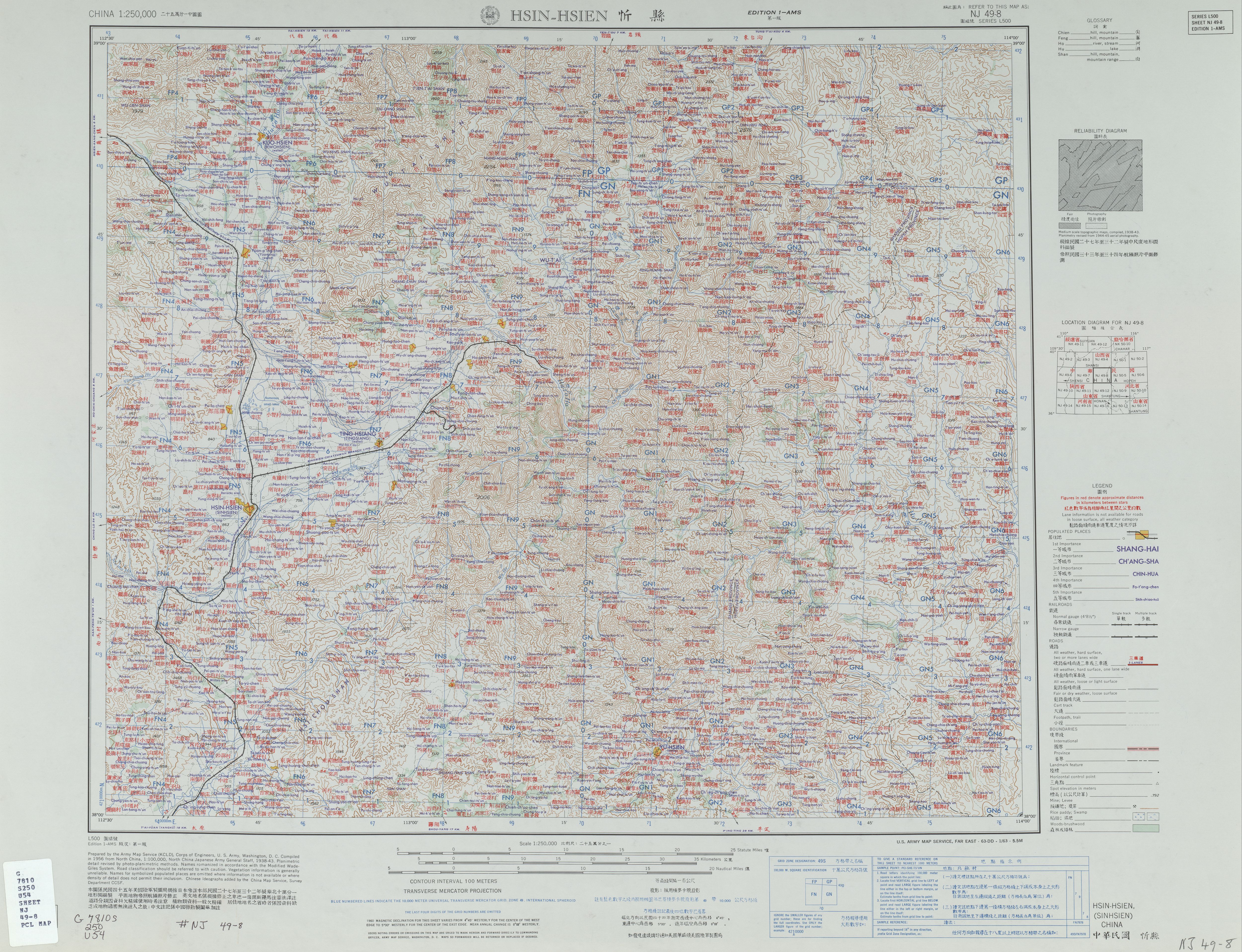 China AMS Topographic Maps